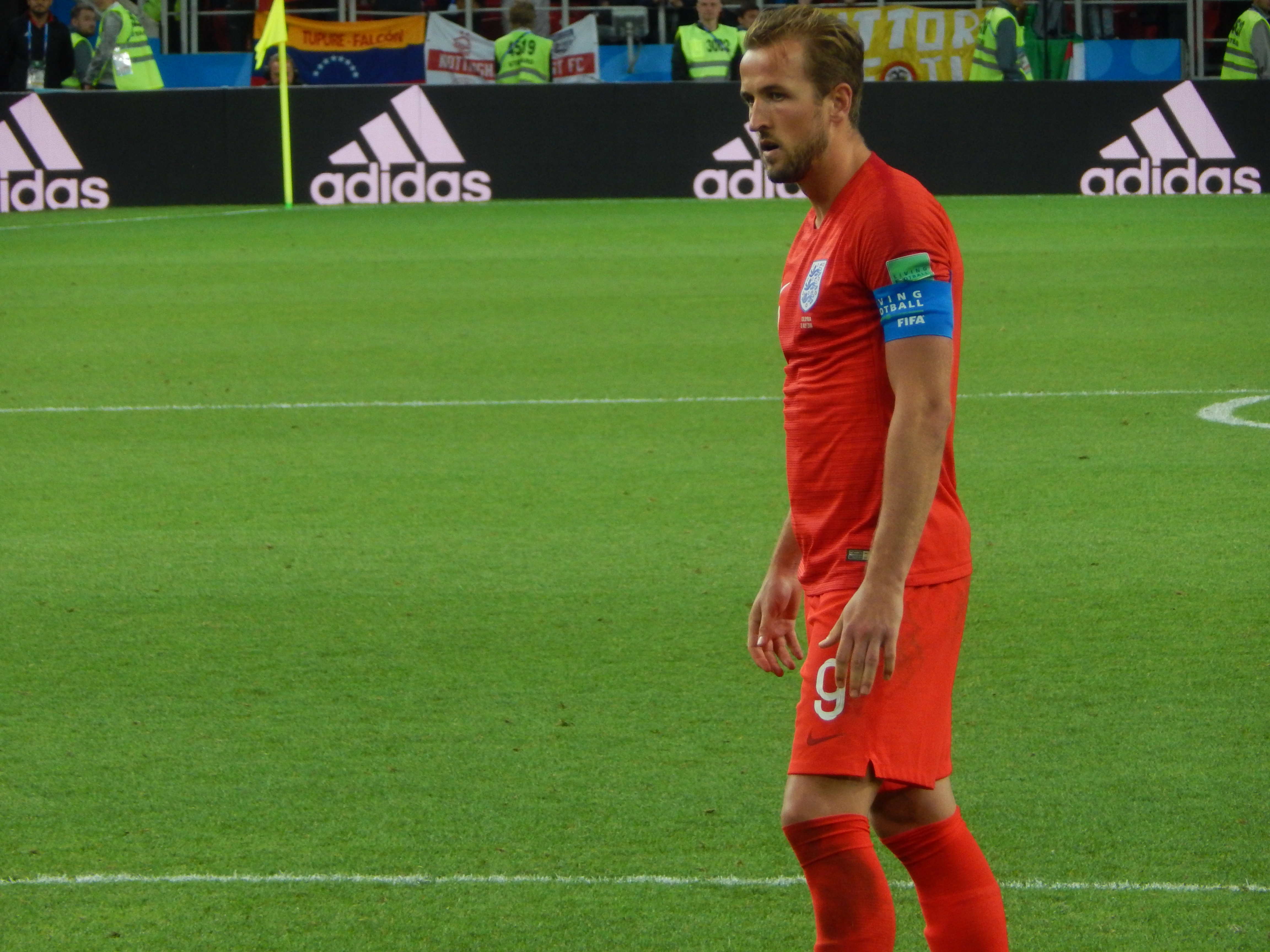 FIFA World Cup 2018, Round of 16, Colombia vs. England. Harry Kane before his penalty kick during the shoot-out